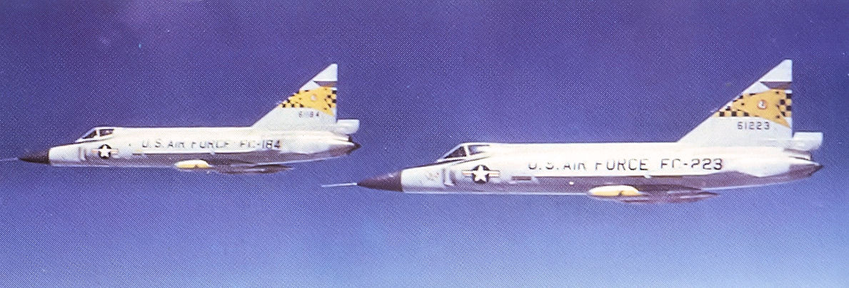 27th Fighter-Interceptor Squadron two F-102s in formation, about 1958. 55-1184 to MASDC as FJ0370 Mar 17, 1975. Converted to QF-102A, then to PQM-102B Transferred to 82d Tactical Aerial Targets Squadron and expended as a target during early 1980s 56-1223 to MASDC as FJ0326 Sep 24, 1974. Converted to QF-102A, later to PQM-102B Transferred to 82d Tactical Aerial Targets Squadron and expended as a target during early 1980s